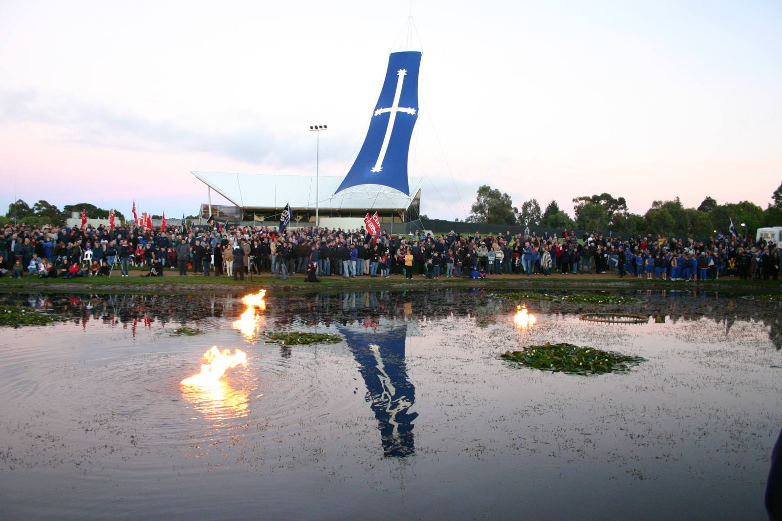 Eureka Stockade 150th anniversary official commemoration at Dawn, December 3, 2005. Photo by Takver.